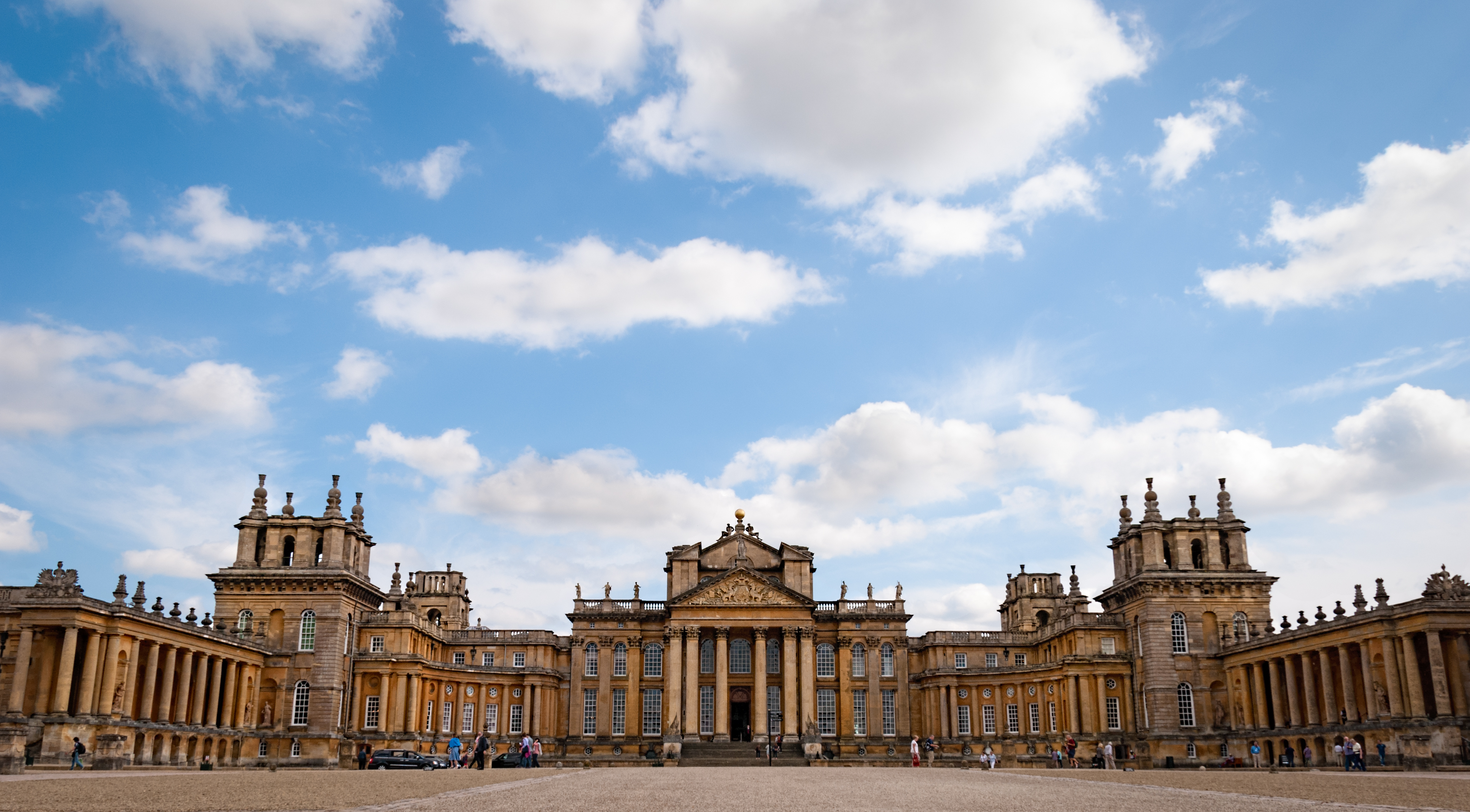 Blenheim palace, Oxfordshire - this photo featured here